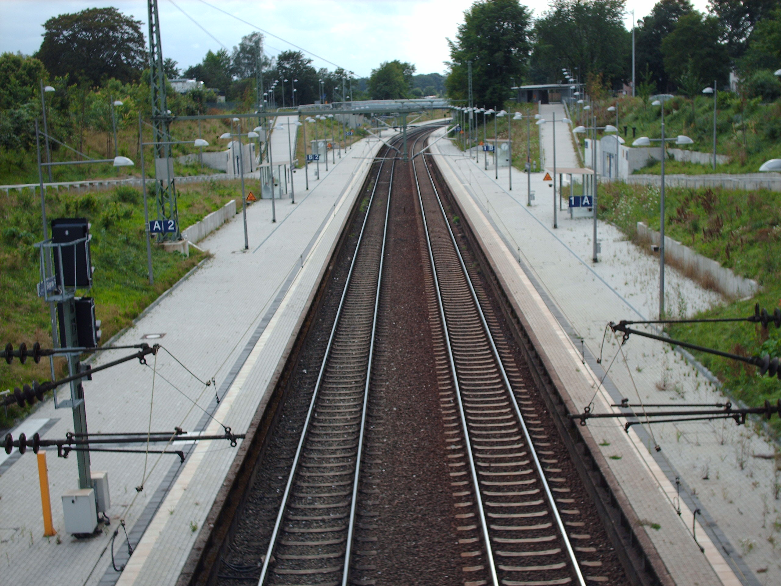 Signal Iduna Park station, Dortmund, Germany check usage